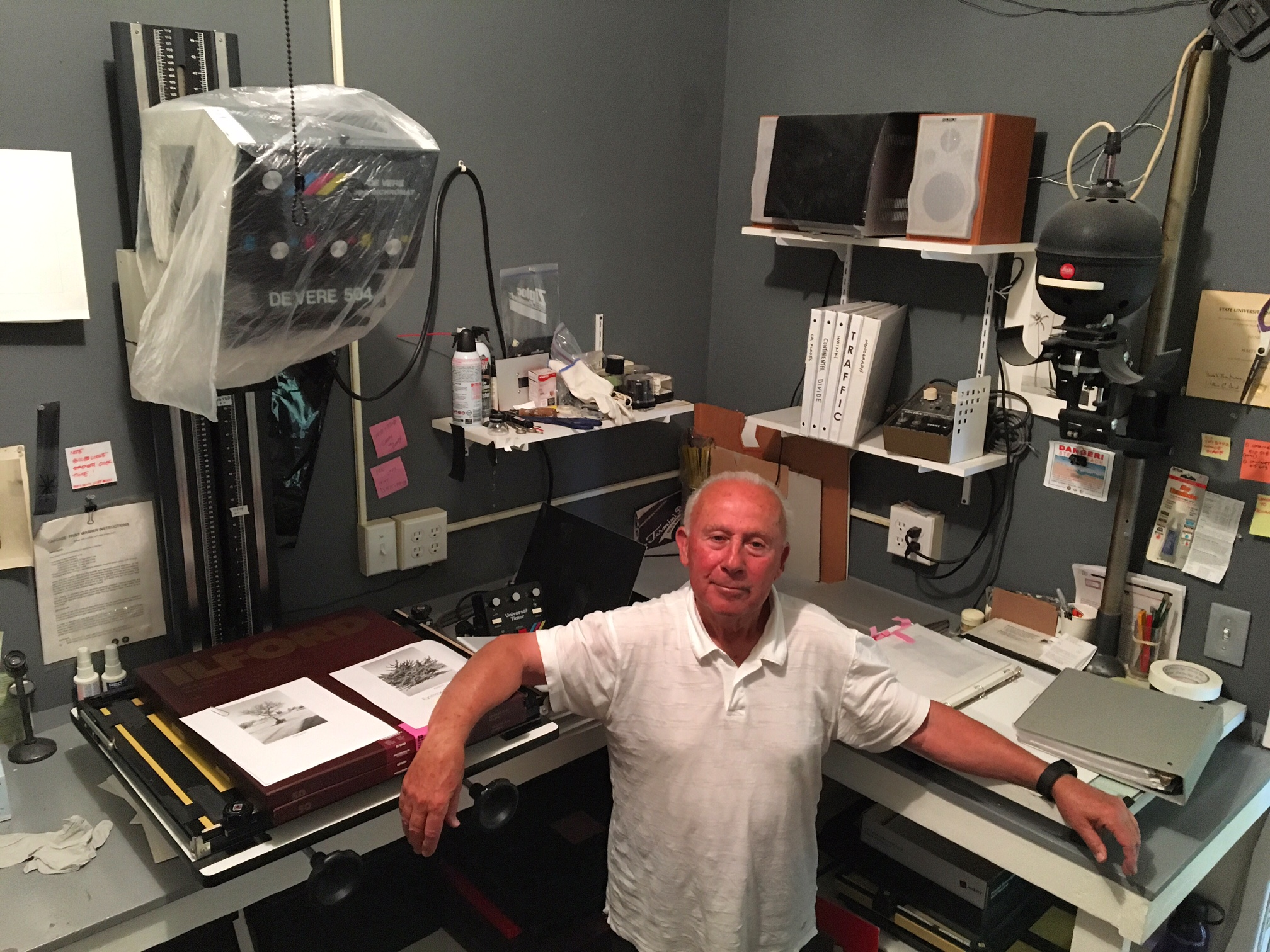 Henry Wessel in his darkroom 2016 - Photograph by Christopher McCall